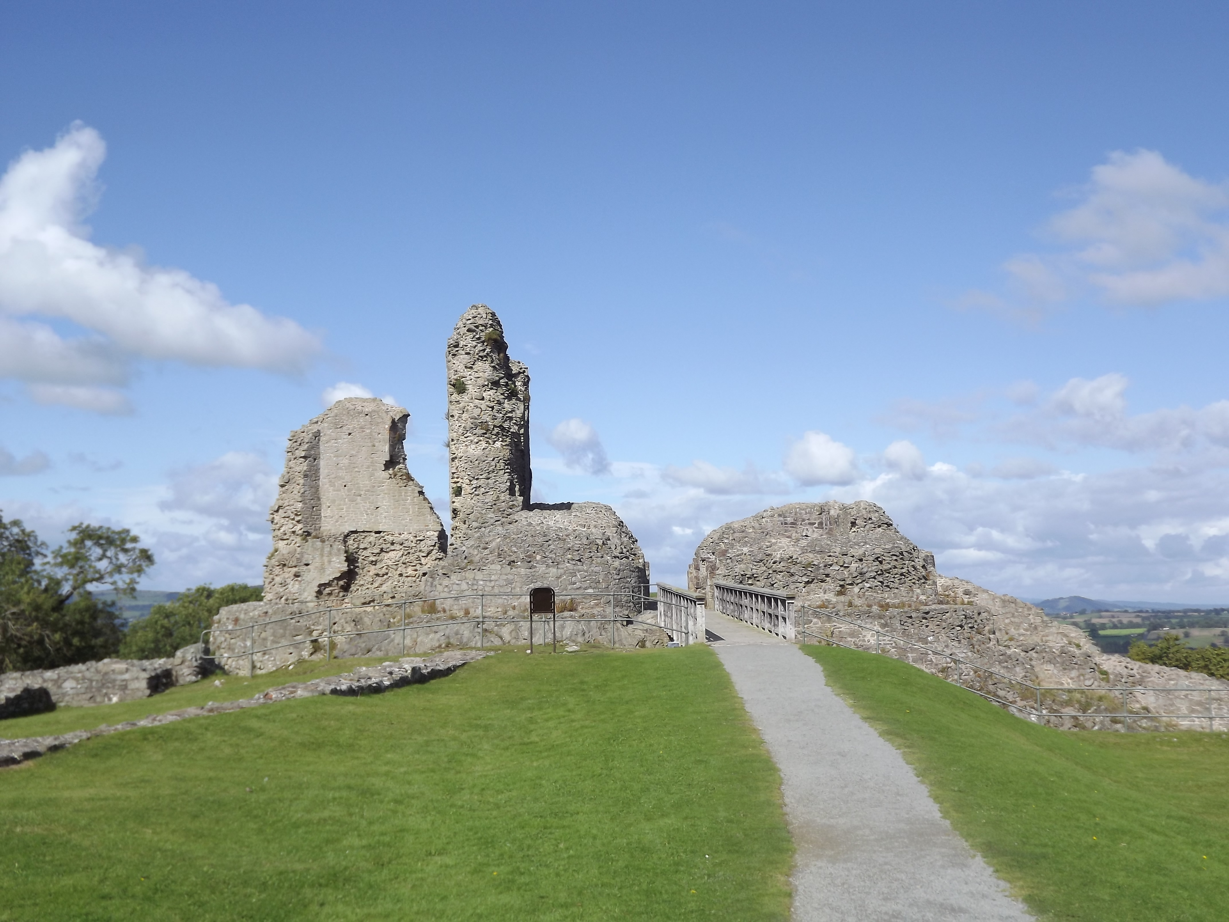 Montgomery Castle. The ruins of the gatehouse to the inner ward (consisting of two bonded D-shaped towers) seen from the south.